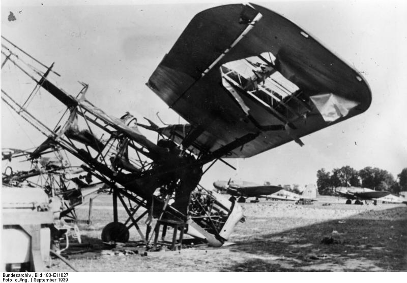 Destroyed Polish trainer plane RWD-8, 1939